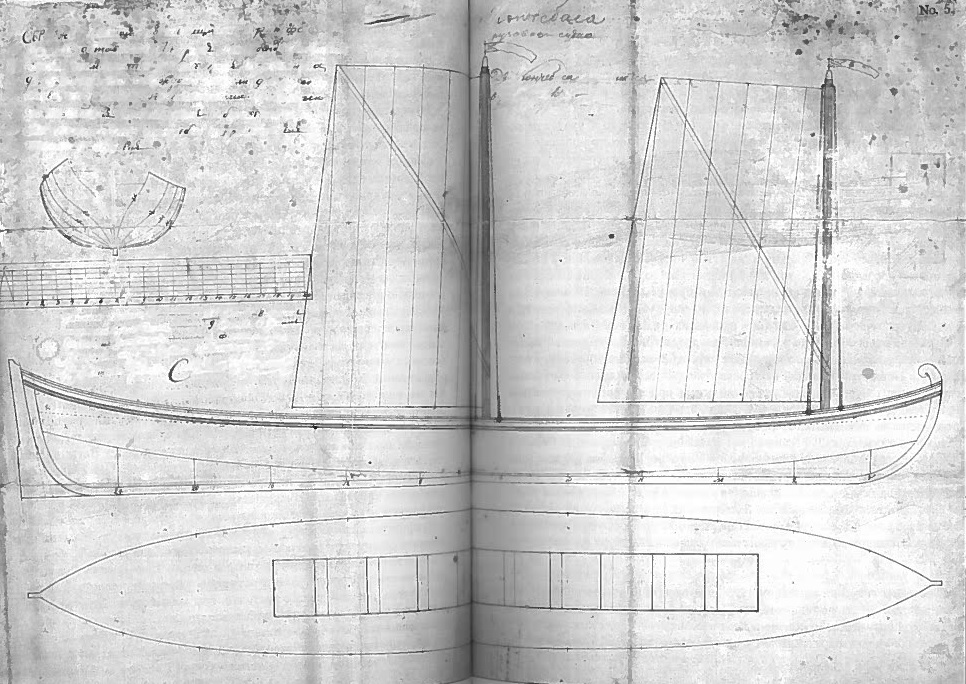 Turkish kirlangich